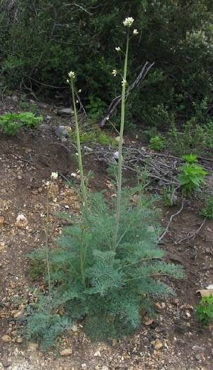 Ehrendorferia ochroleuca (formerly Dicentra ochroleuca) — White eardrops, Yellow bleeding-heart. On the Backbone Trail, at Circle X Ranch Park — in the Santa Monica Mountains National Recreation Area, California.